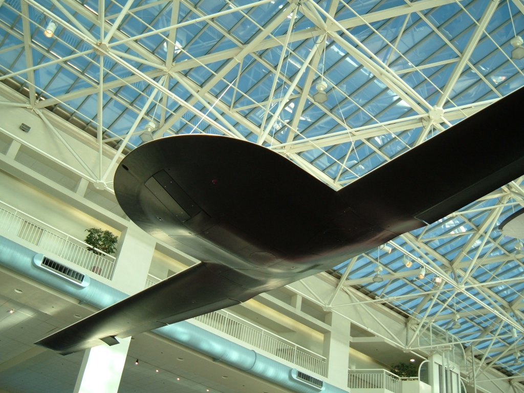 The second DarkStar Tier III- prototype on display at the Museum of Flight in Seattle, Washington, photographed by Willy Logan on February 18, 2006.